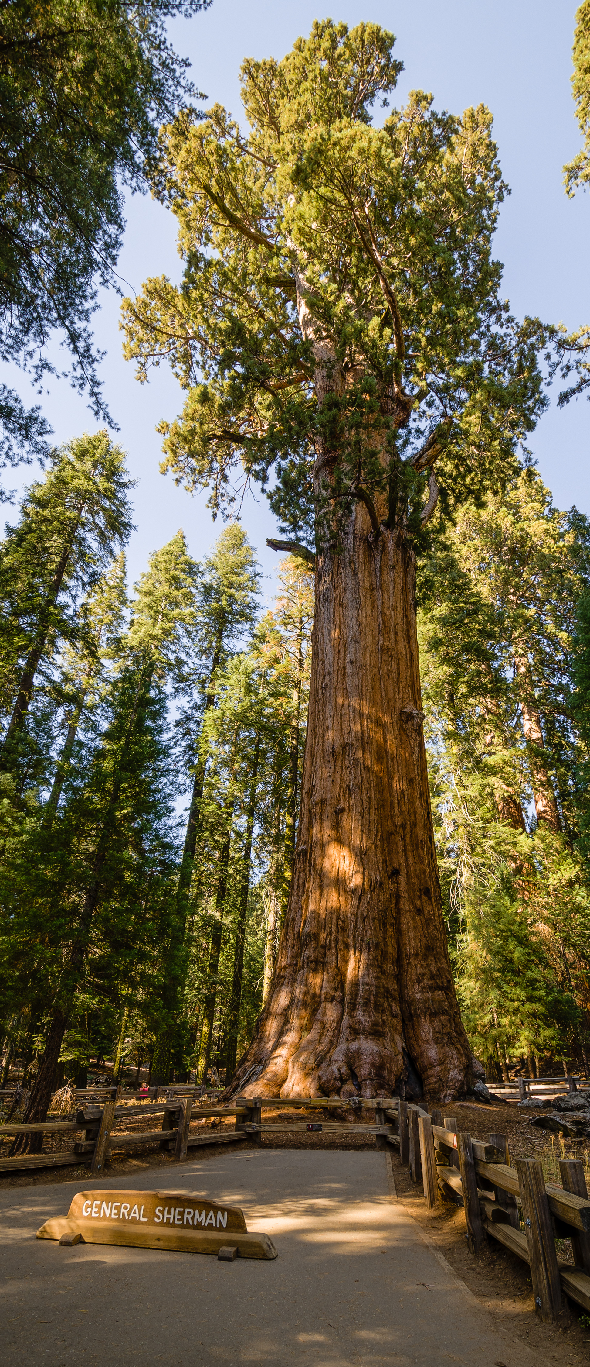 The General Sherman Tree in Sequoia National Park - the biggest living tree on earth